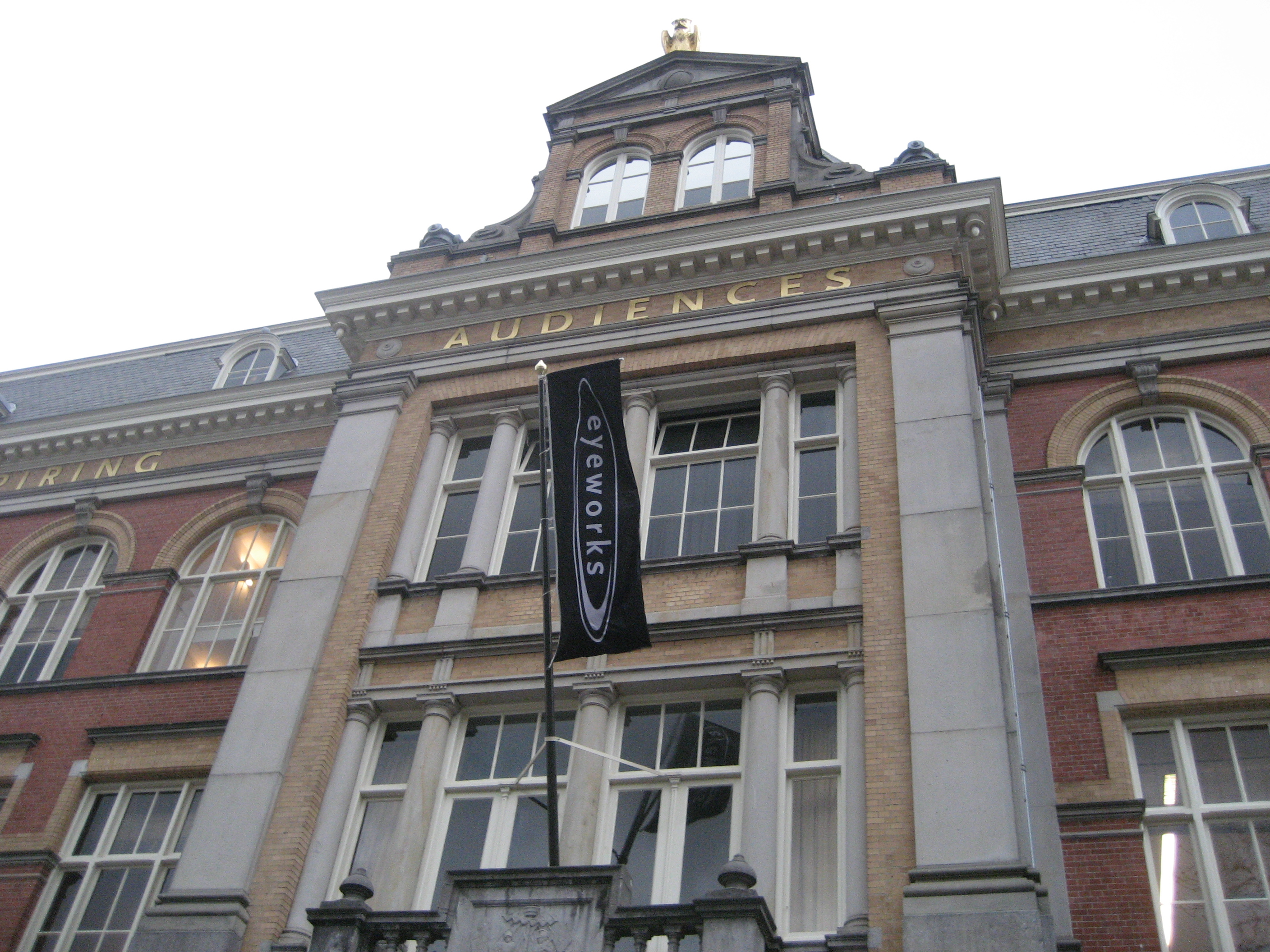 Eyeworks offices, Raamplein 1, 1016 XK Amsterdam (The Netherlands)